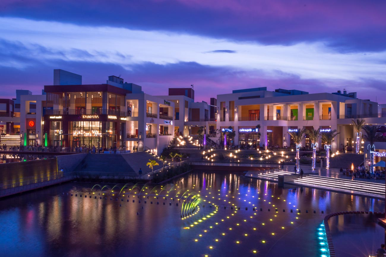 The Village